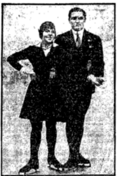 Emília Rotter (1906-2003) and László Szollás (1907-1980), Hungarian figure skaters